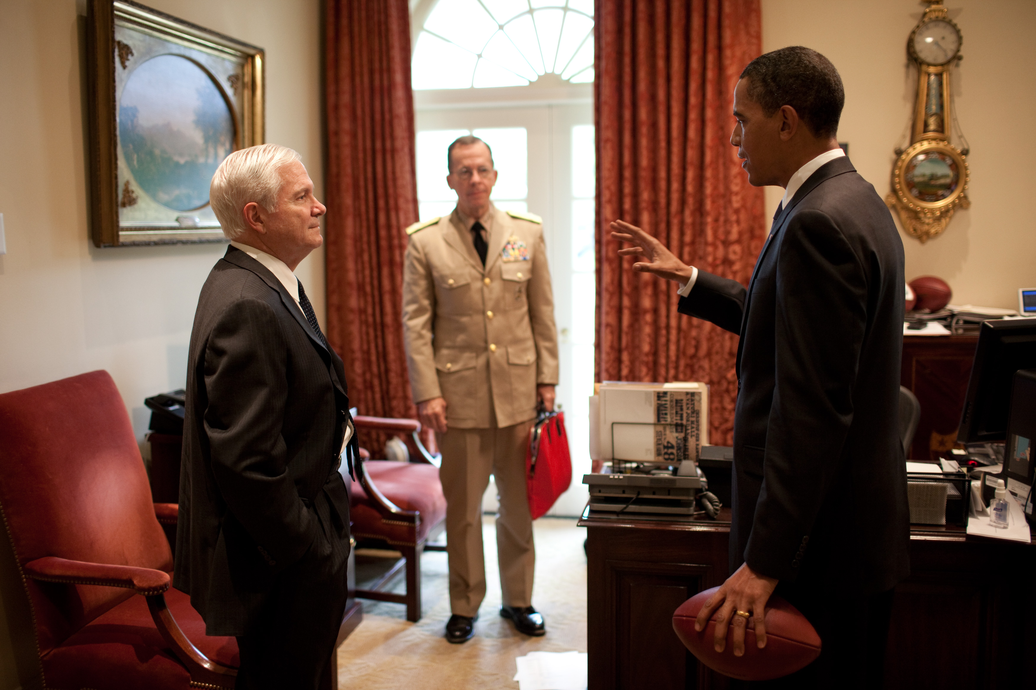 President Barack Obama talks with Secretary of Defense Robert Gates, left, and Admiral Michael Mullen, chairman of the Joint Chiefs of Staff, outside the Oval Office, in the presidential secretary office, in the White House